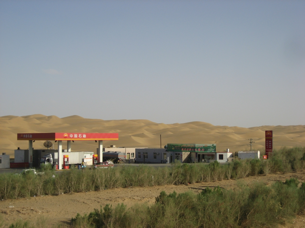 A gas station in the middle of the desert, along the Tarim Desert Highway.